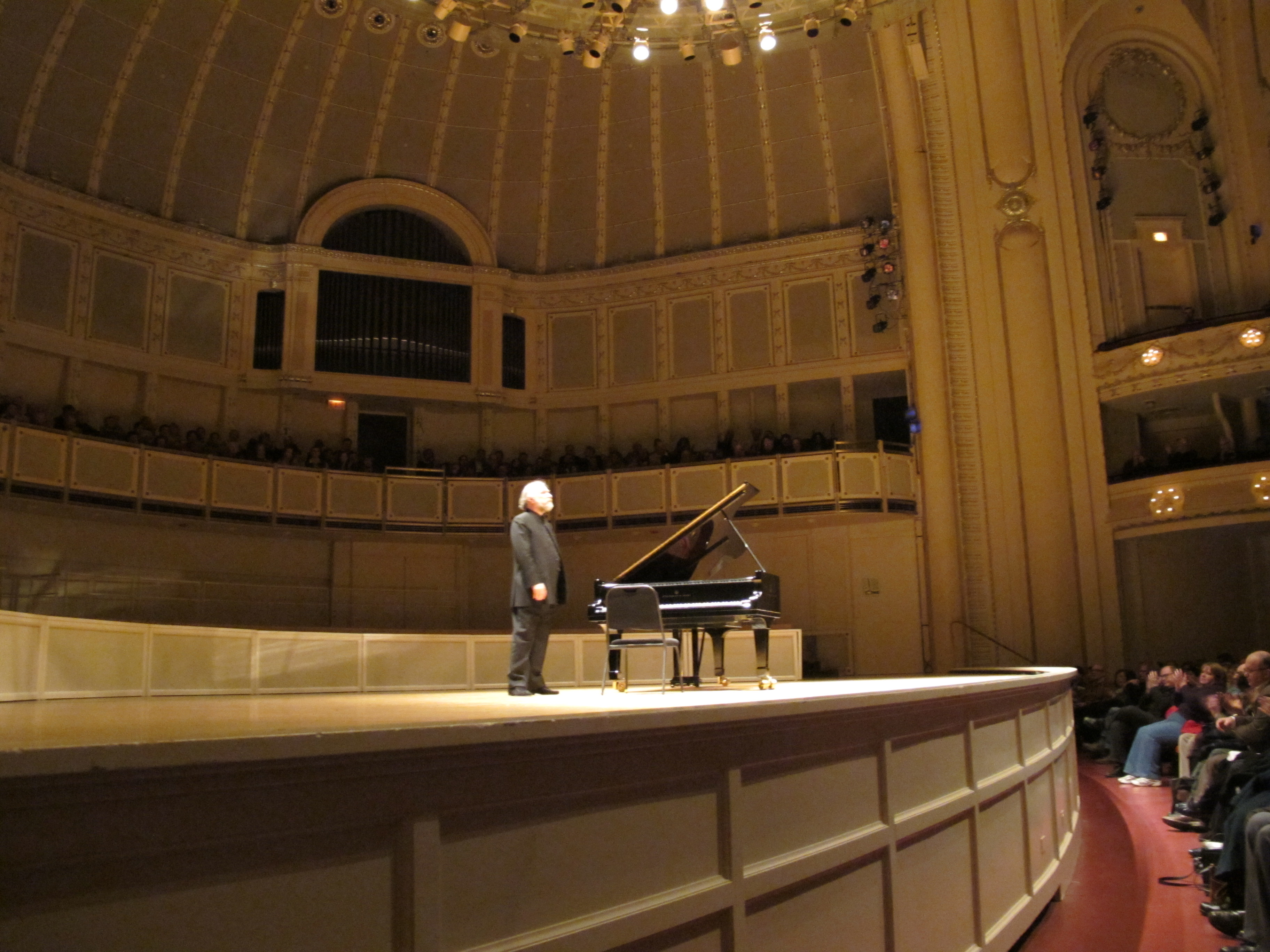 Pianist Radu Lupu receives a standing ovation after the intermission of his program at Chicago Symphony Center on 31 January 2010.